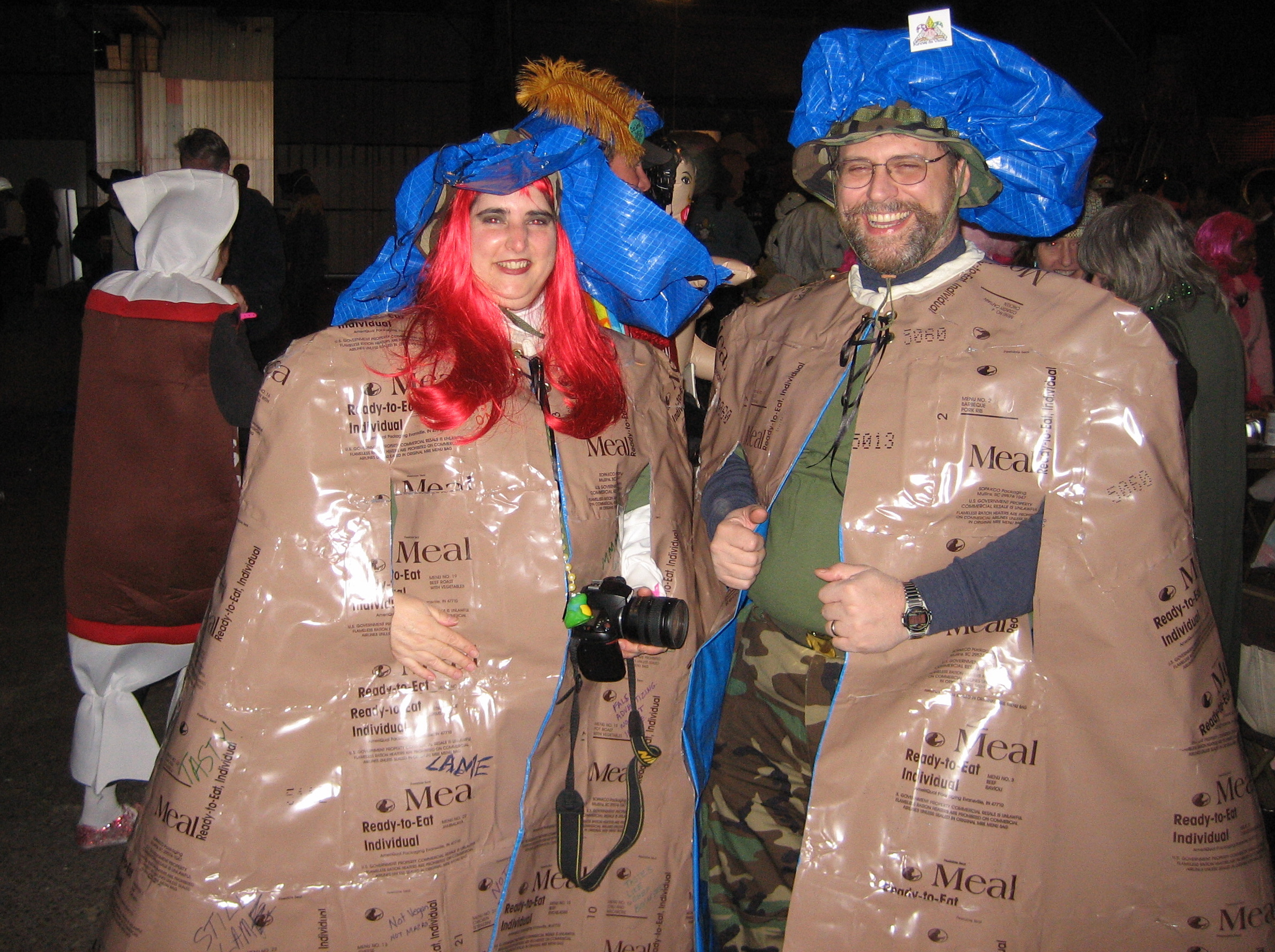 Krewe du Vieux marchers just before the 2006 parade, the first New Orleans Mardi Gras parade after Hurricane Katrina. These Krewe members wear coats of MRE packages and FEMA blue tarp hats. Photo by Infrogmation of New Orleans.